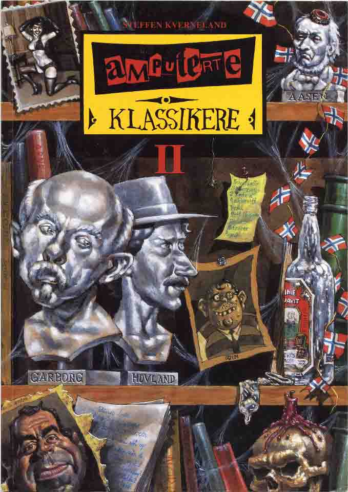 front cover of the comics album Amputerte klassikere II (=Amputated classics II) by the Norwegian comics artist Steffen Kverneland